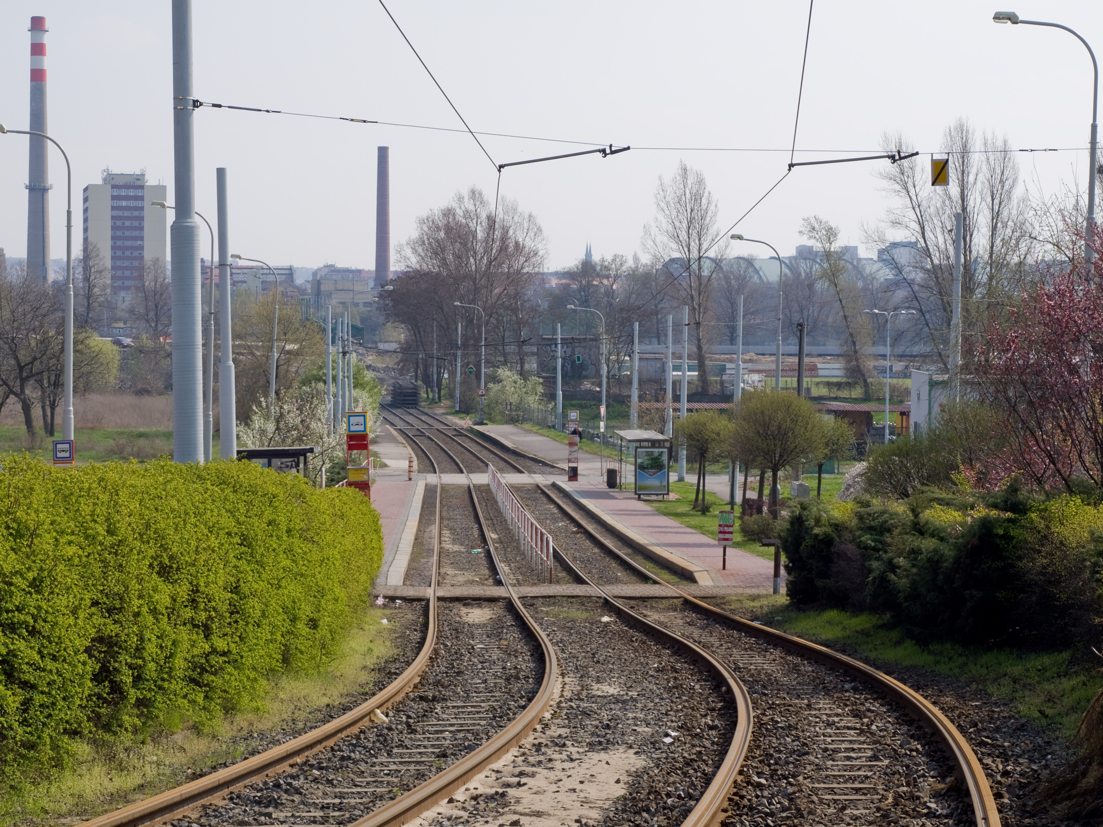 Trojská stop, Reconstruction of tram track Nádraží Holešovice – Trojská